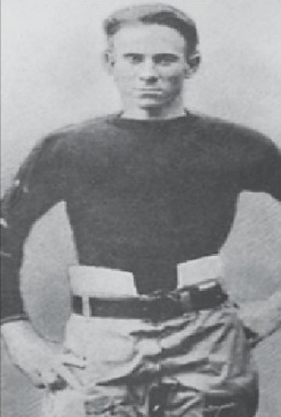 Irby "Rabbit" Curry, All-Southern back for the Vanderbilt Commodores circa 1916.